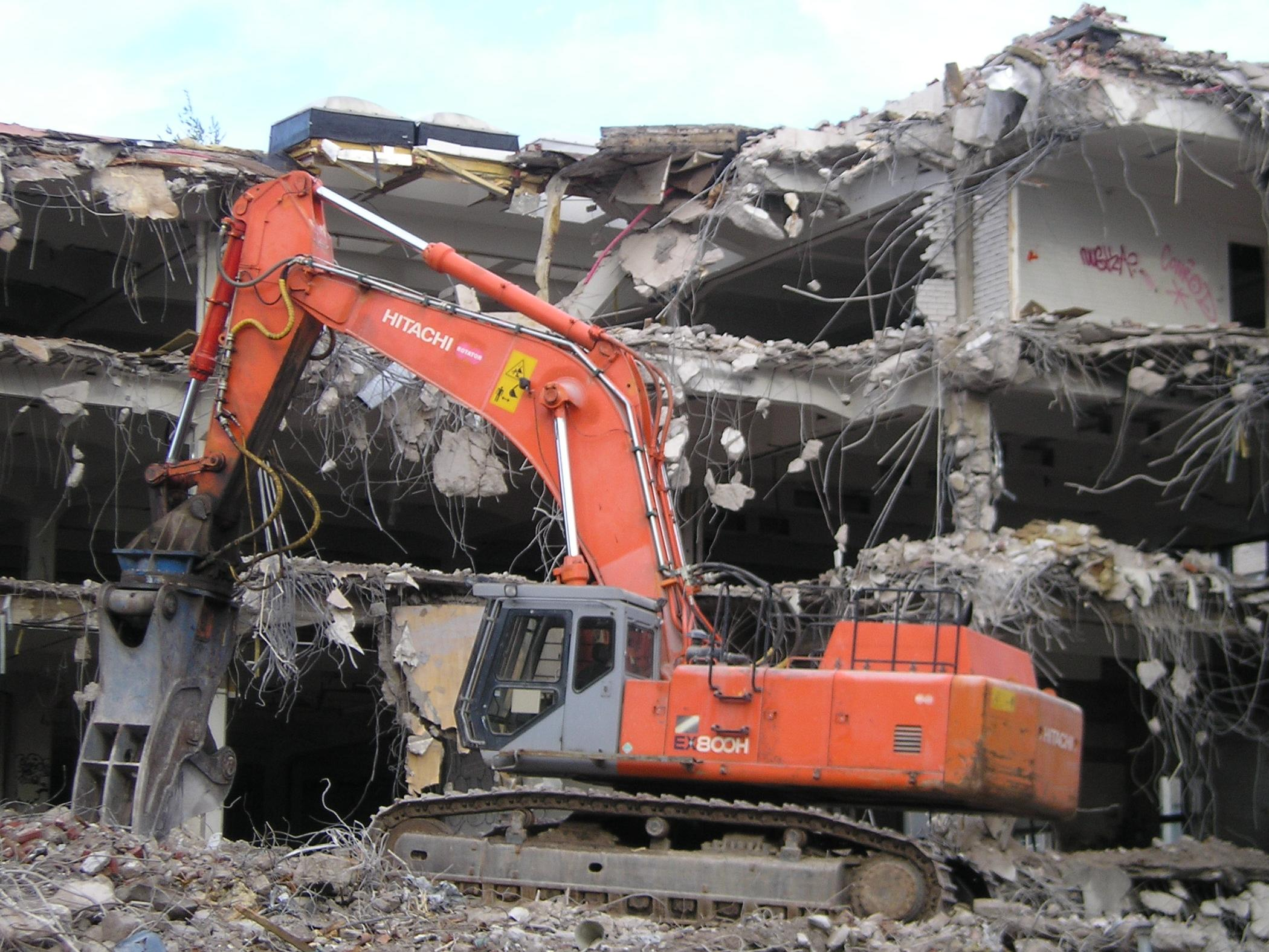 Destruction of former industrial buildings, Vattuniemi, Lauttasaari island, Helsinki